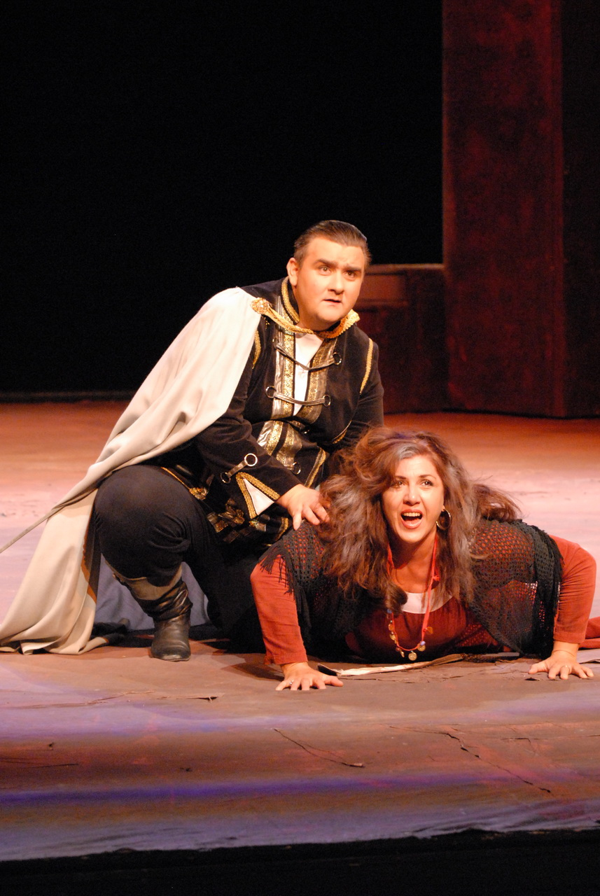 "The Troubadour", an opera in four acts by Giuseppe Verdi, directed by Voja Soldatović, Opera of the SNT, Novi Sad, 2008/09; Marina Pavlović Barać (mezzo-soprano), Saša Petrović (tenor) Srpski (latinica): "Trubadur", opera iz četiri čina Đuzepe Verdija u režiji Voje Soldatovića; Opera SNP-a, Novi Sad, 2008/09; Marina Pavlović Barać (mecosopran), Saša Petrović (tenor) Српски (ћирилица): "Трубадур", опера из четири чина Ђузепе Вердија у режији Воје Солдатовића; Опера СНП-а, Нови Сад, 2008/09; Марина Павловић Бараћ (мецосопран), Саша Петровић (тенор)